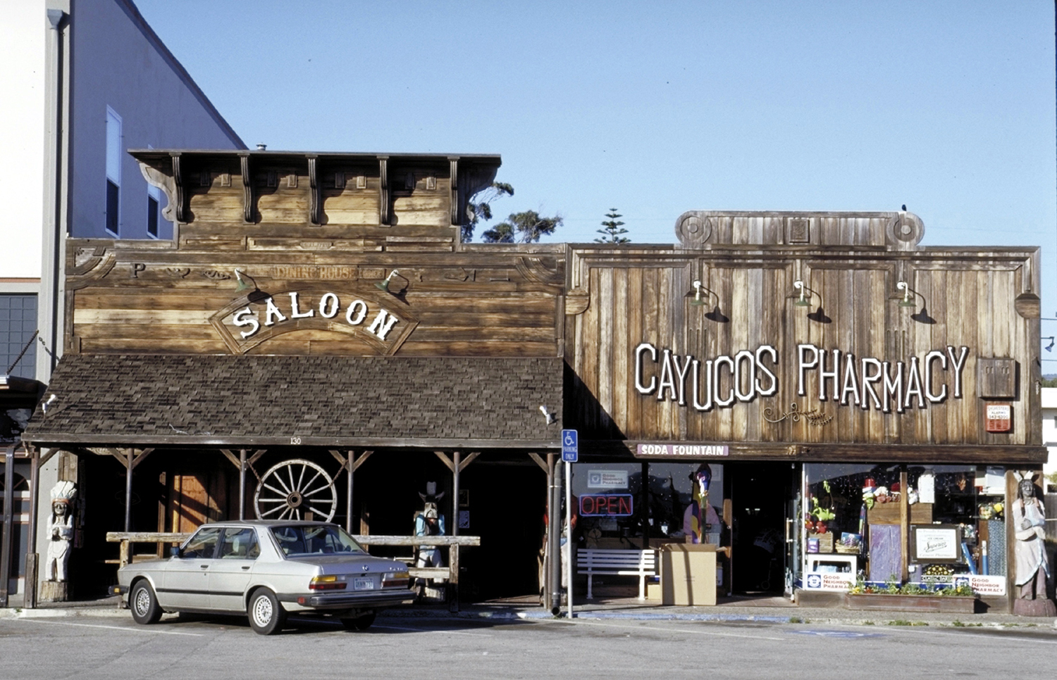 Shops in downtown Cayucos, in San Luis Obispo County, California.